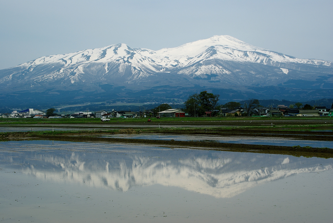 Mount Chōkai seen from the Southwest. 山形県道60号酒田遊佐線からの風景。